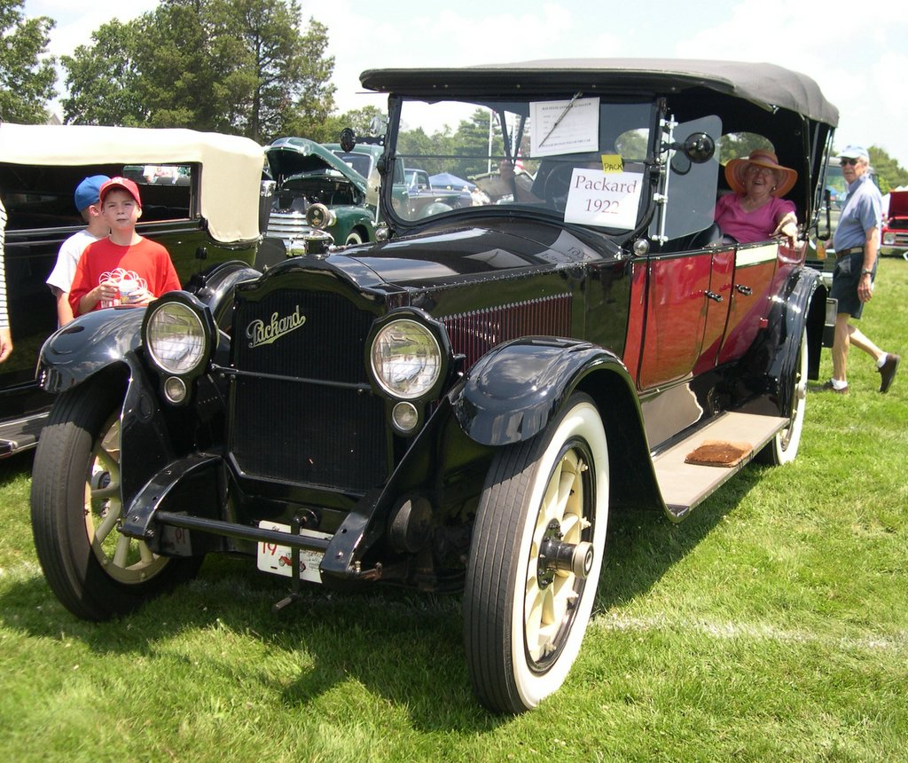 1922 Packard Twin Six 3-35 Phaeton